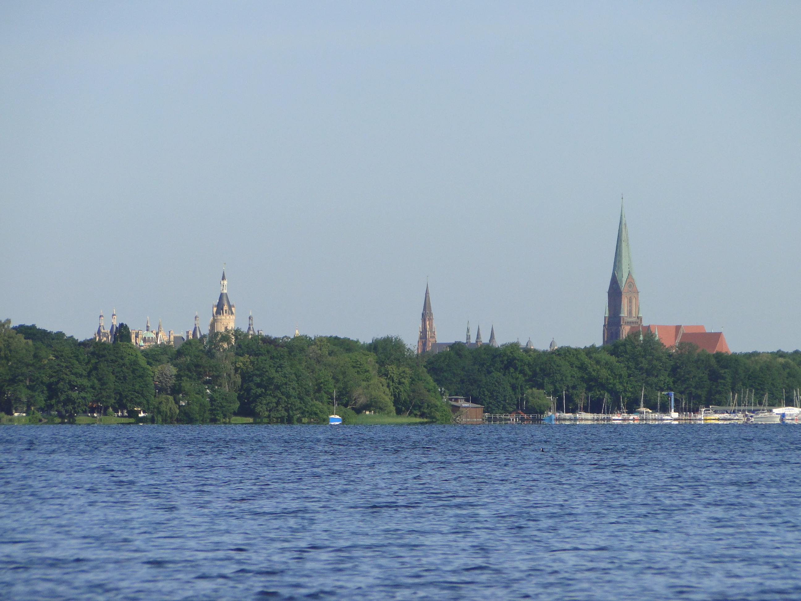 Skyline from Zippendorf beach in Schwerin, Mecklenburg-Vorpommern, Germany